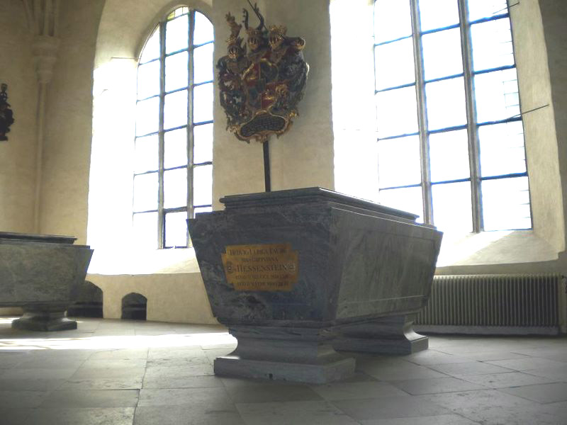 Grave of Imperial Countess Hedwig Taube von Hessenstein (official mistress of King Frederick) in Strängnäs Cathedral, as released by image creator RistessonPlace: Strängnäs, Sweden